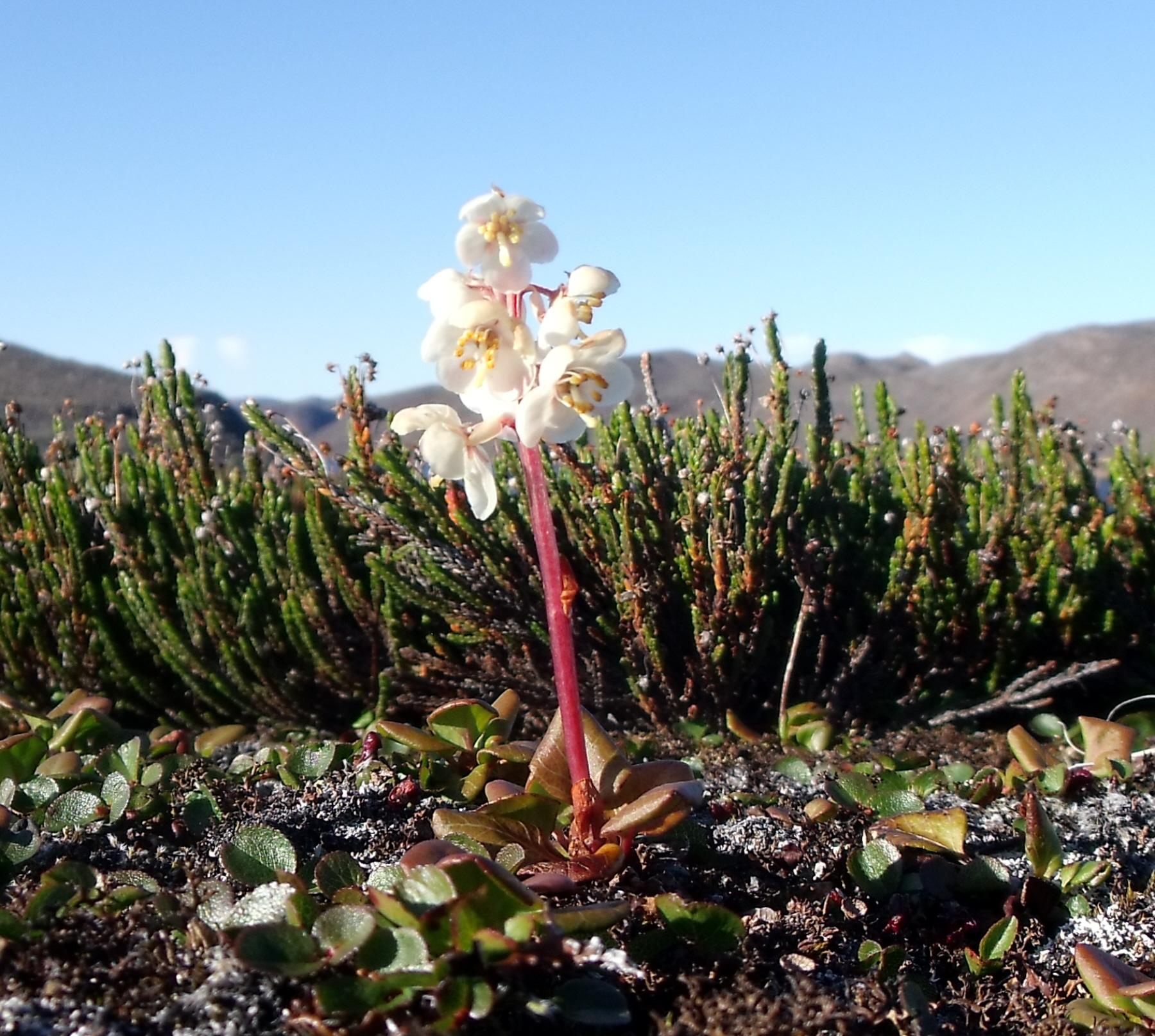 Late summer flowering plant, all of five inches tall, of large-flowered wintergreen on Baffin Island between Pangnirtung and Iqaluit. For those of you without Page Burt's fab Arctic Flowers book, the only leaves are at the base of the plant. More info about Pyrola grandiflora Radius from Vesuvianite here: Fiona Paton wrote at Mike's Flickr page: "I think it may be White Heather in the background, Cassiope tetragona. In Inuktut, itsutit or qijuktaat."